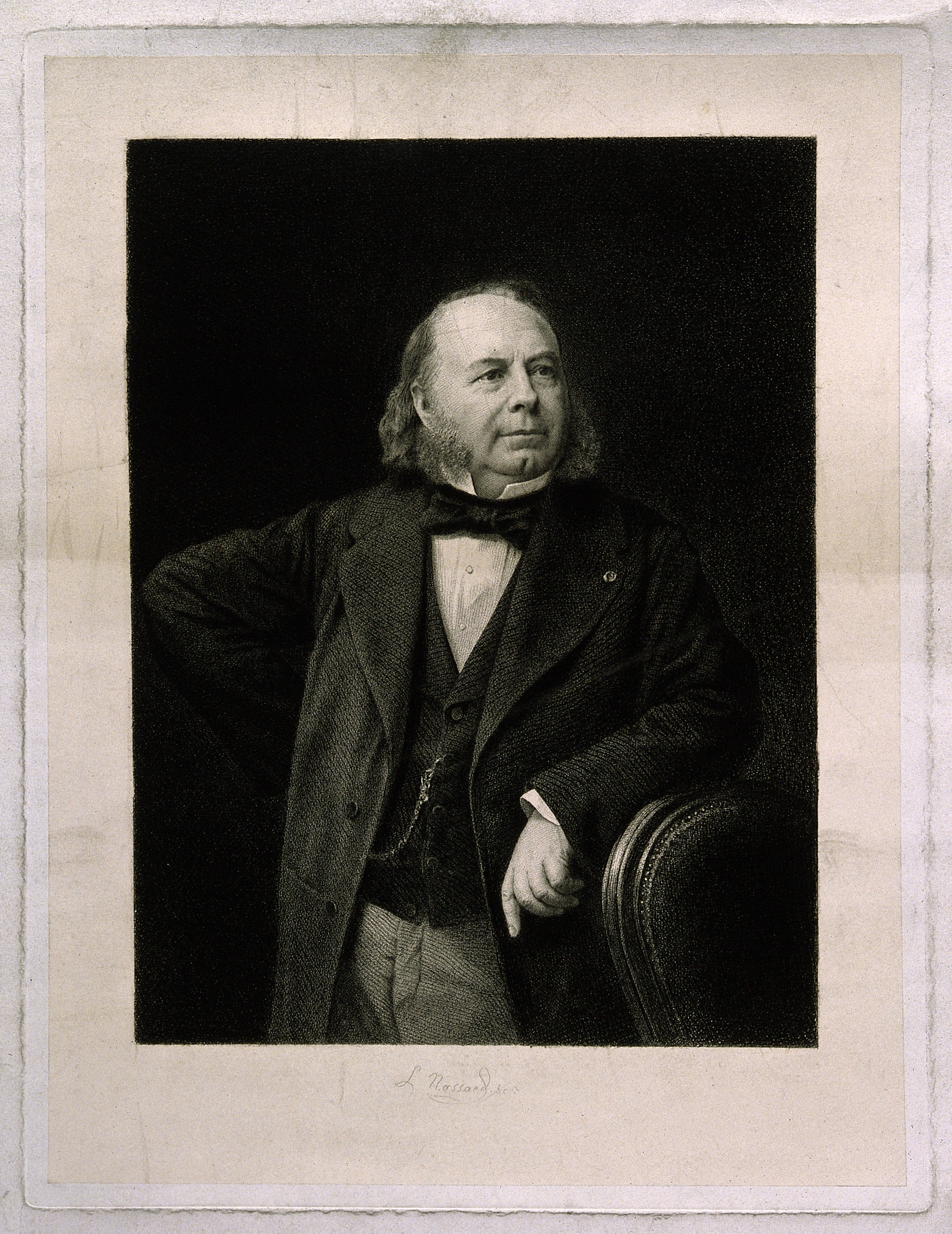 Henry Davis Pochin. Etching by L. Nassard. Iconographic Collections Keywords: portrait prints; Henry Davis Pochin; etchings